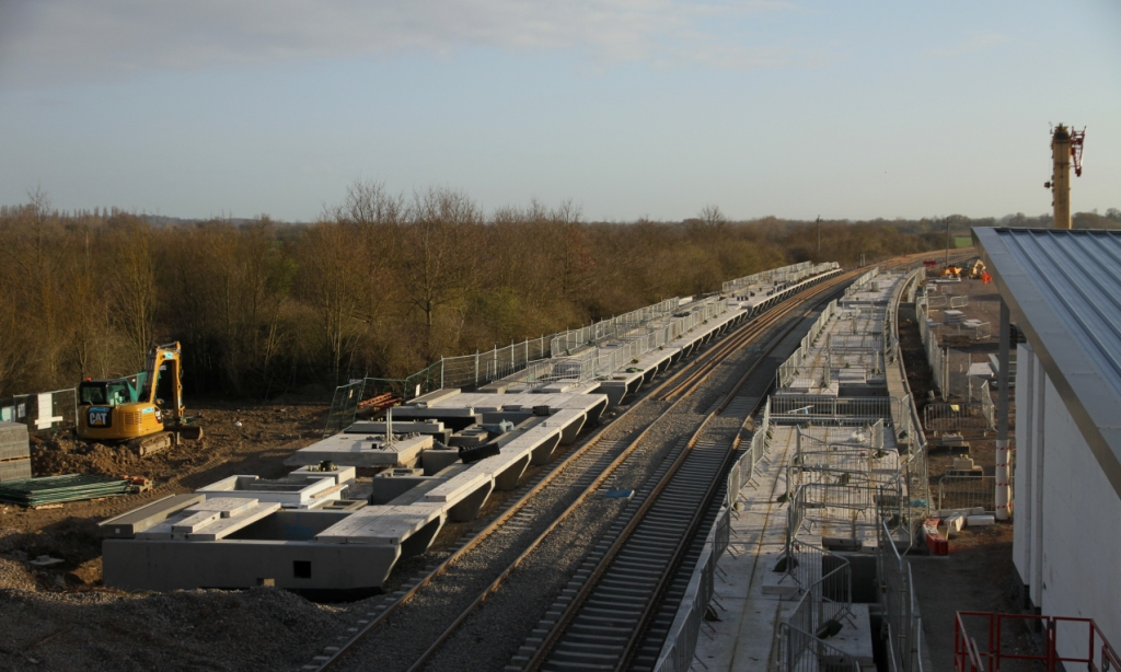 Oxford Parkway railway station: platforms under construction, seen from the southwest